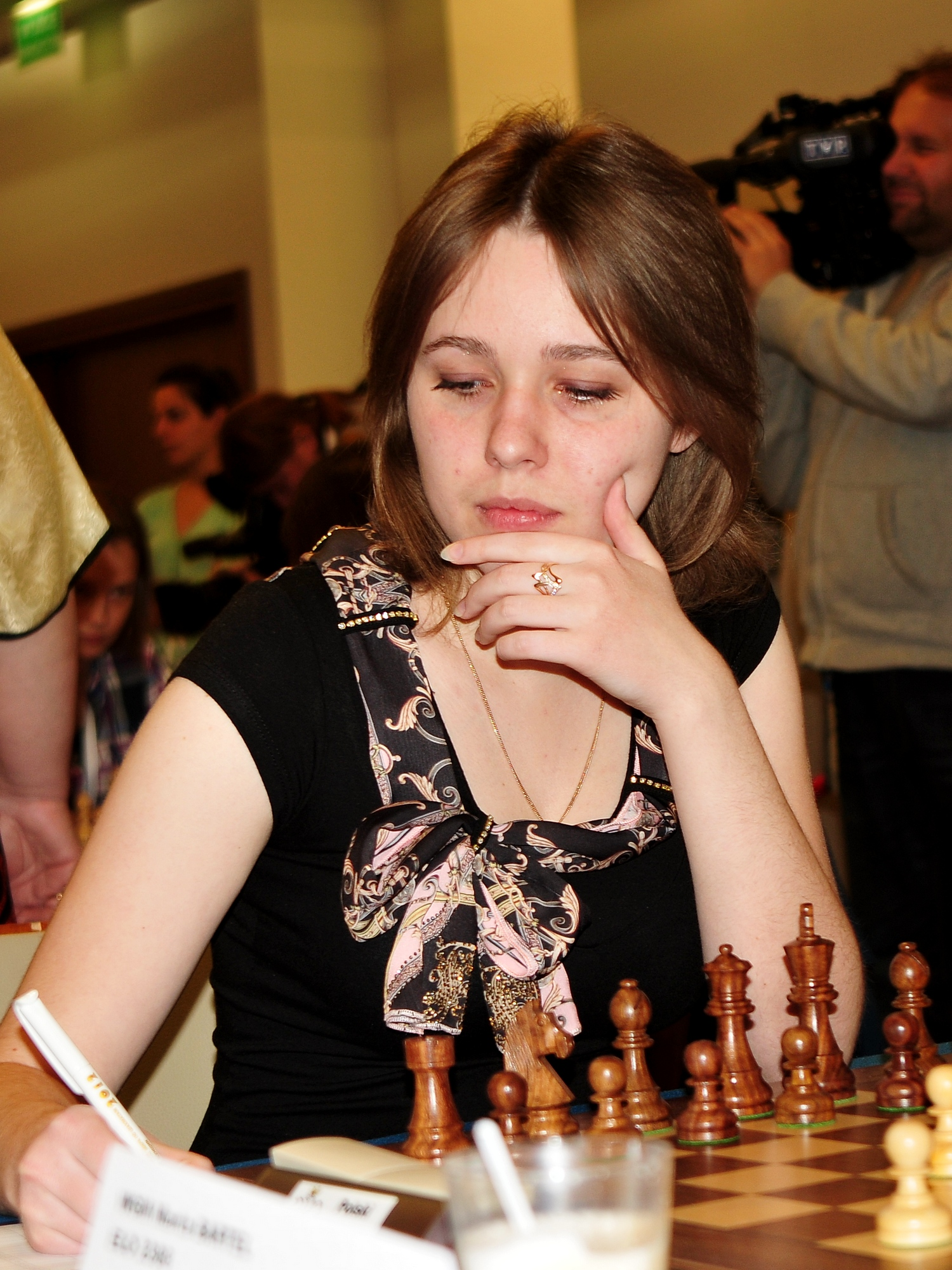 IM Mariya Muzychuk, European Chess Team Championship Warsaw 2013